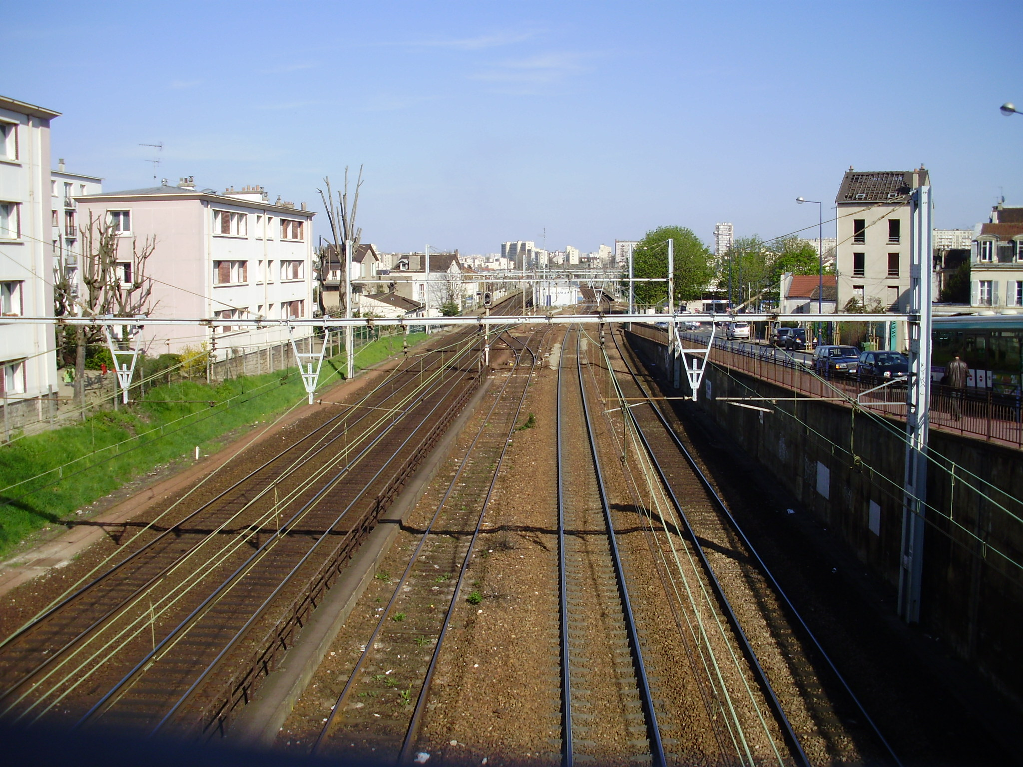 Clamart station - view on west side, Hauts-de-Seine, France